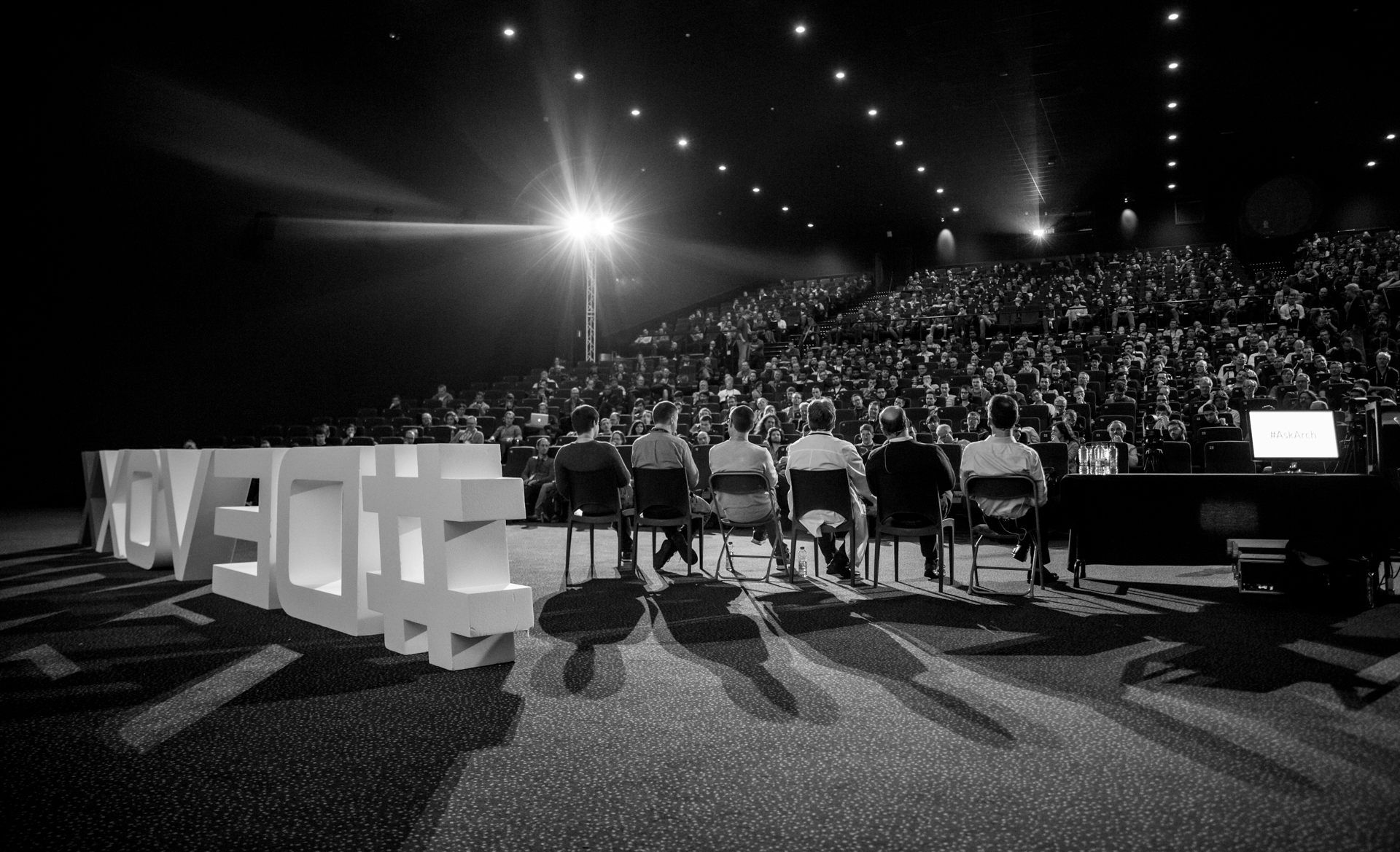 Devoxx Belgium 2018 : Ask the architect with Mark Reinhold, Stuart Marks, Brian Goetz, Alan Bateman and Maurizio Cimadamore.